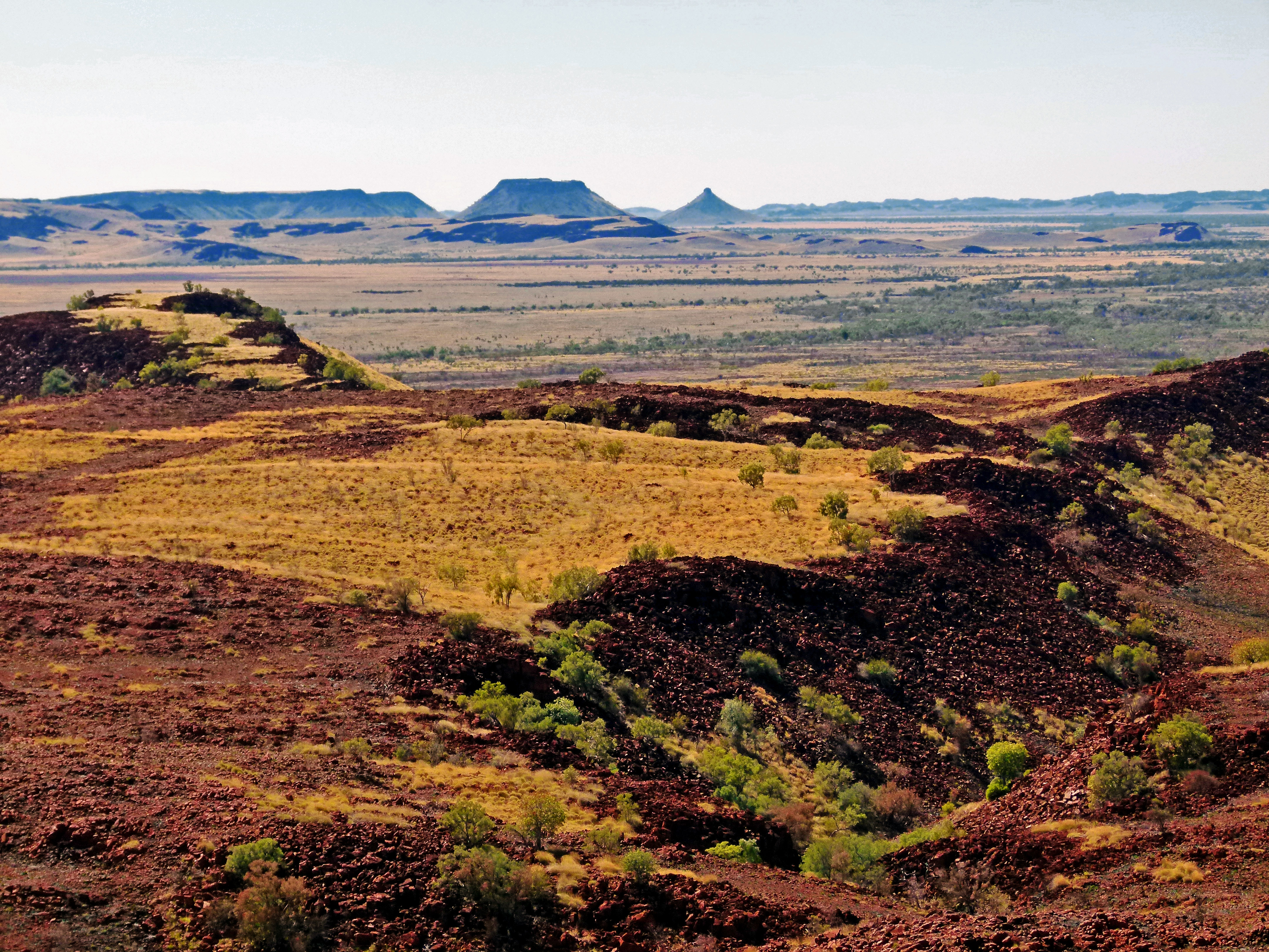 View of Millstream-Chichester National Park. Deep burgundy soils and rocks are from the high concentration of iron.